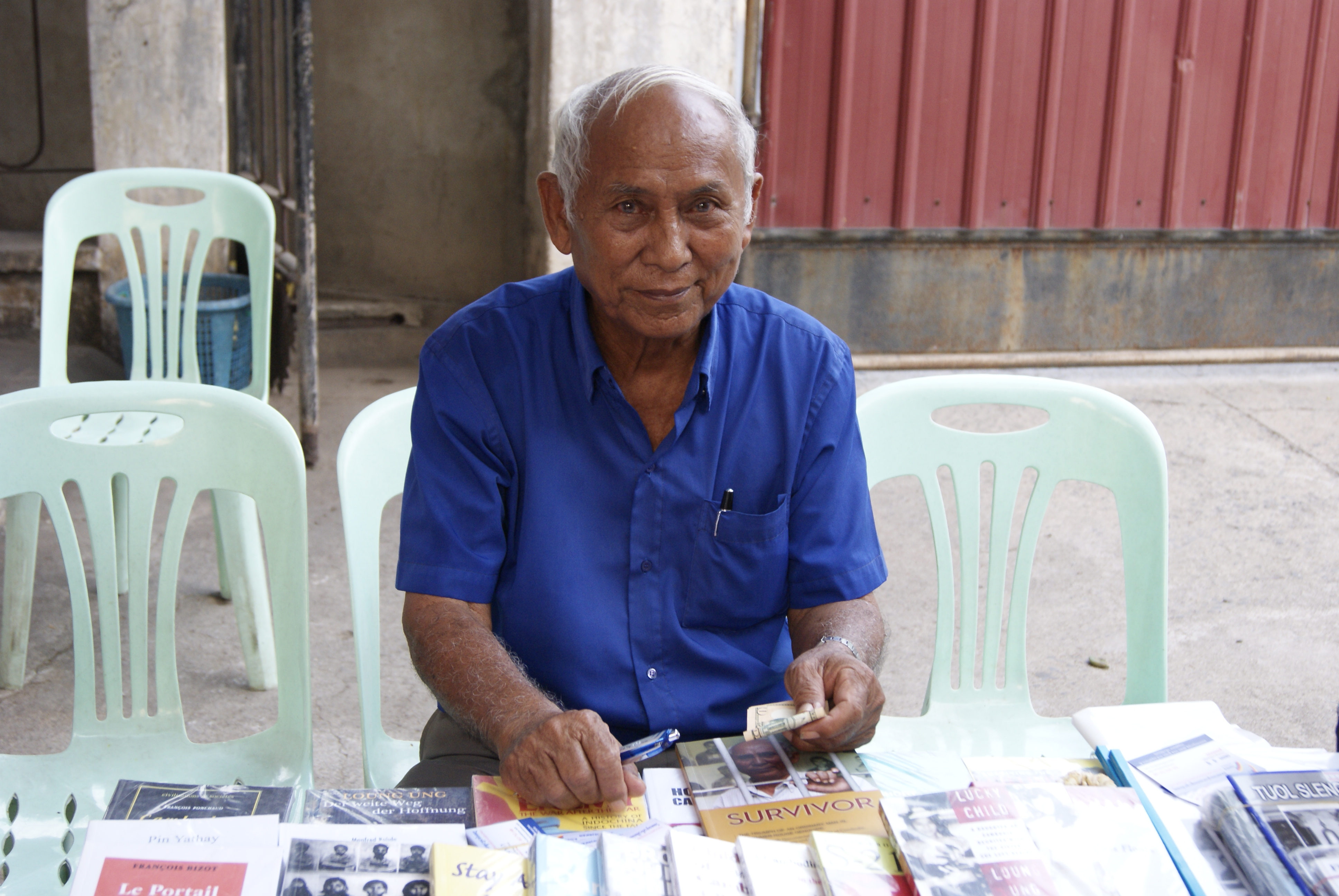 Chum Mey at the Tuol Sleng Genocide Museum in Phnom Penh (March 2015)